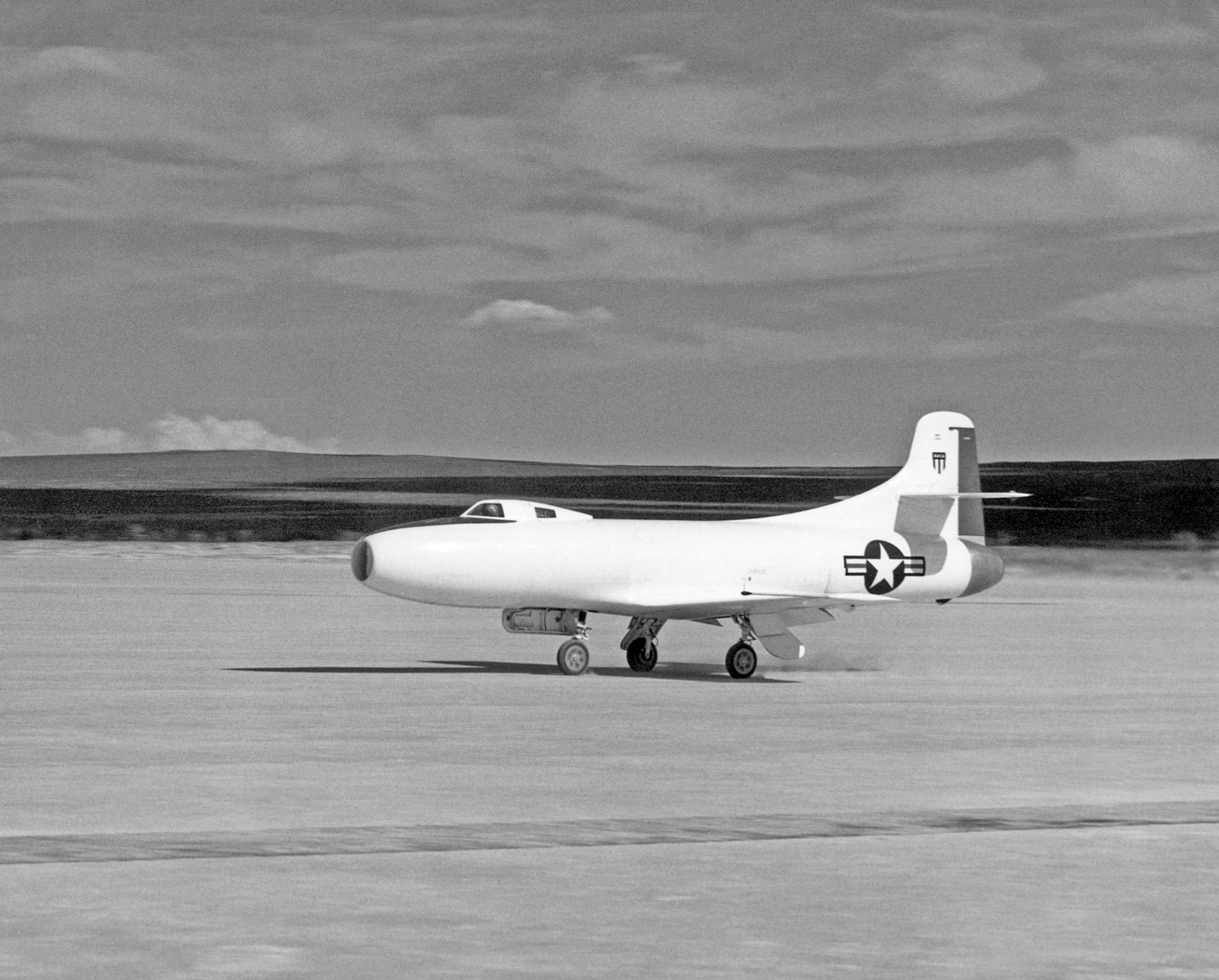 The Douglas Skystreak is seen close-up in this 1949 photograph. The Skystreak made its landing approach at about 210 knots and landed at 143 knots. Despite the (then) high landing speed, the pilots found the airplane's landing characteristics to be satisfactory.